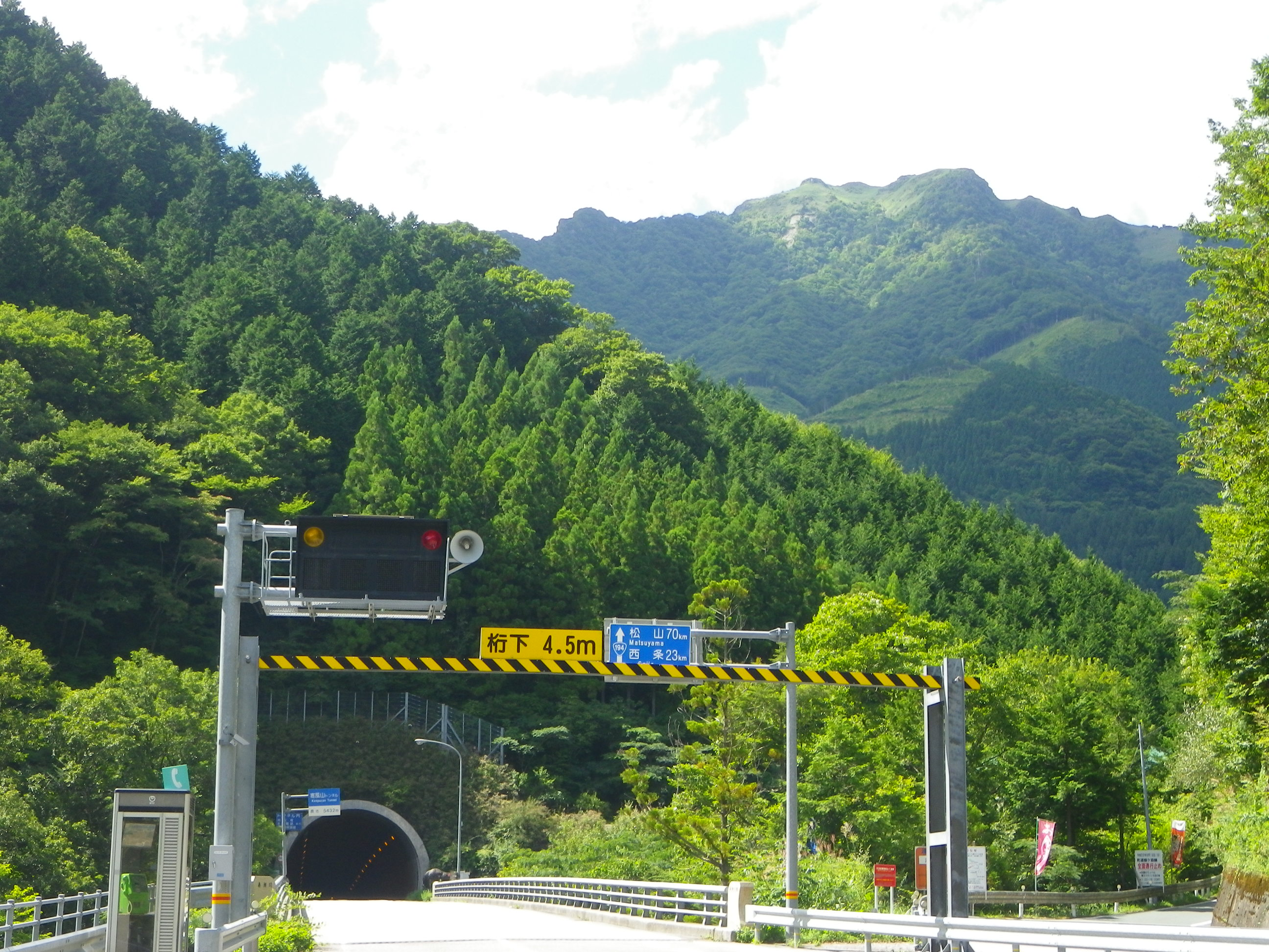 Kanpuzan Tunnel and Mount Kanpu (Kanpuzan)